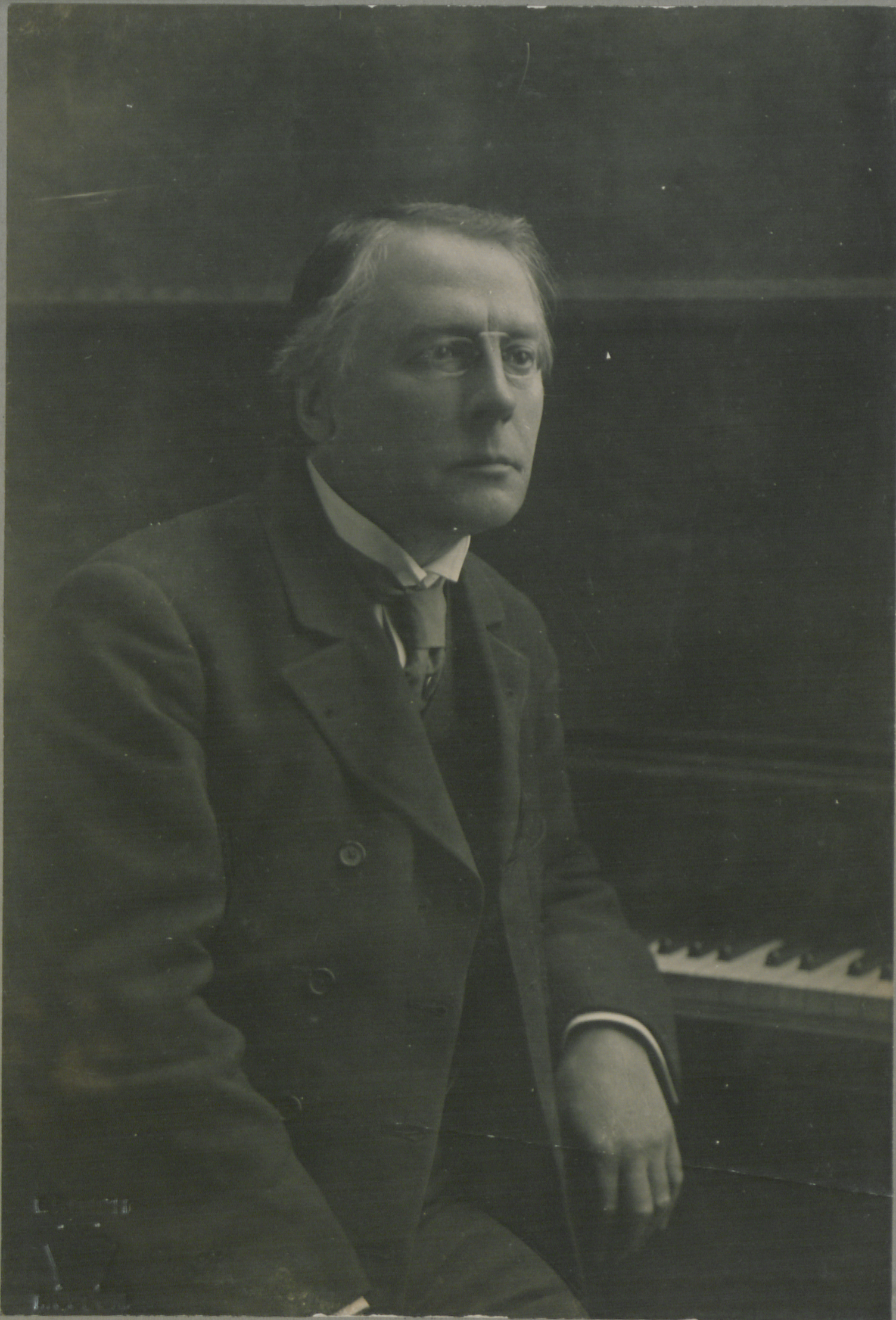 Arthur Friedheim. Photo B.